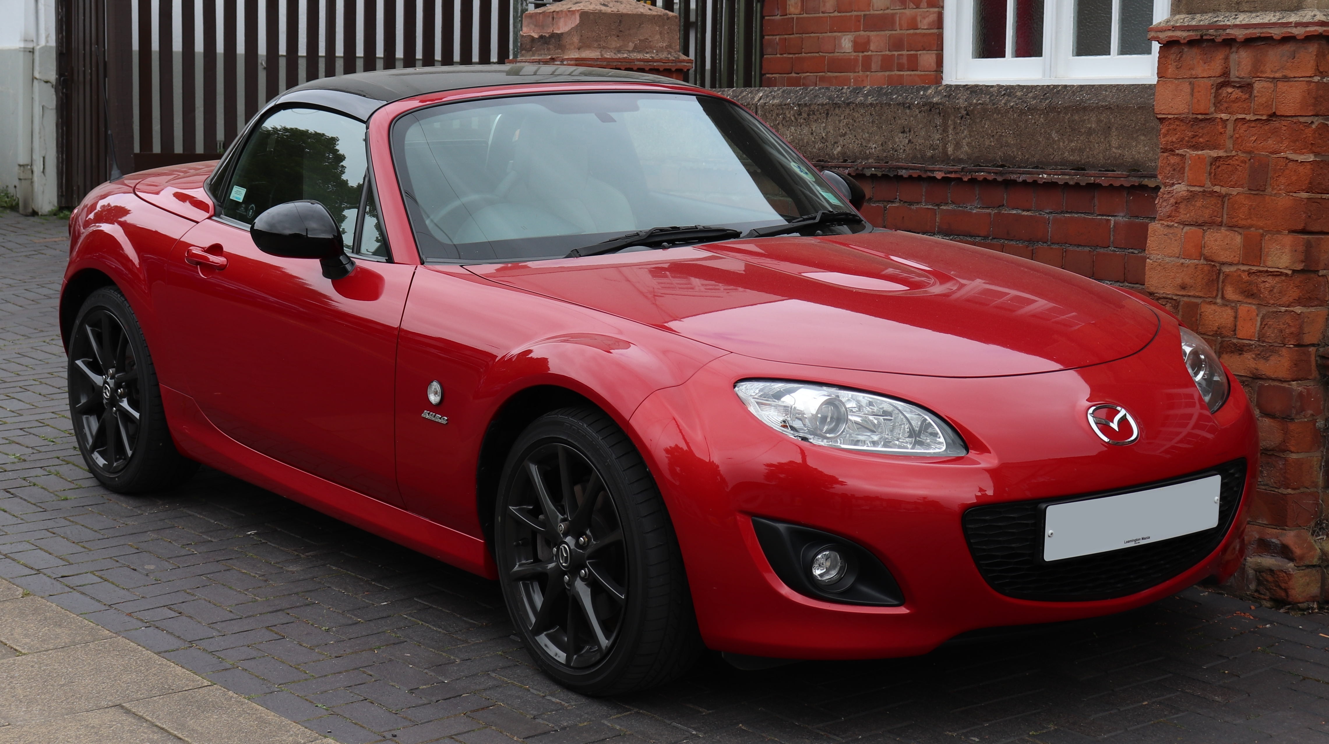 2012 Mazda MX-5 I Roadster Kuro Edition 2.0 Front Taken in Warwick